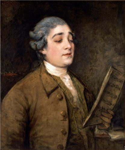 Giusto Fernando Tenducci, sometimes called "il Senesino"[1] (ca. 1736 – 25 January 1790), was a soprano (castrato) opera singer and composer, who passed his career partly in Italy but chiefly in Britain. by Gainsborough PROBABLY BATH, ABOUT 1773